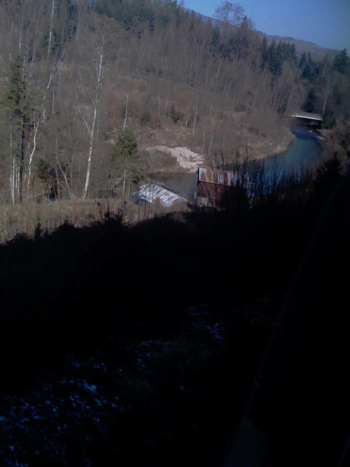 River Jona between Rüti ZH and Rapperswil-Jona - Rivero Jona inter Rüti ZH kaj Rapperswil-Jona